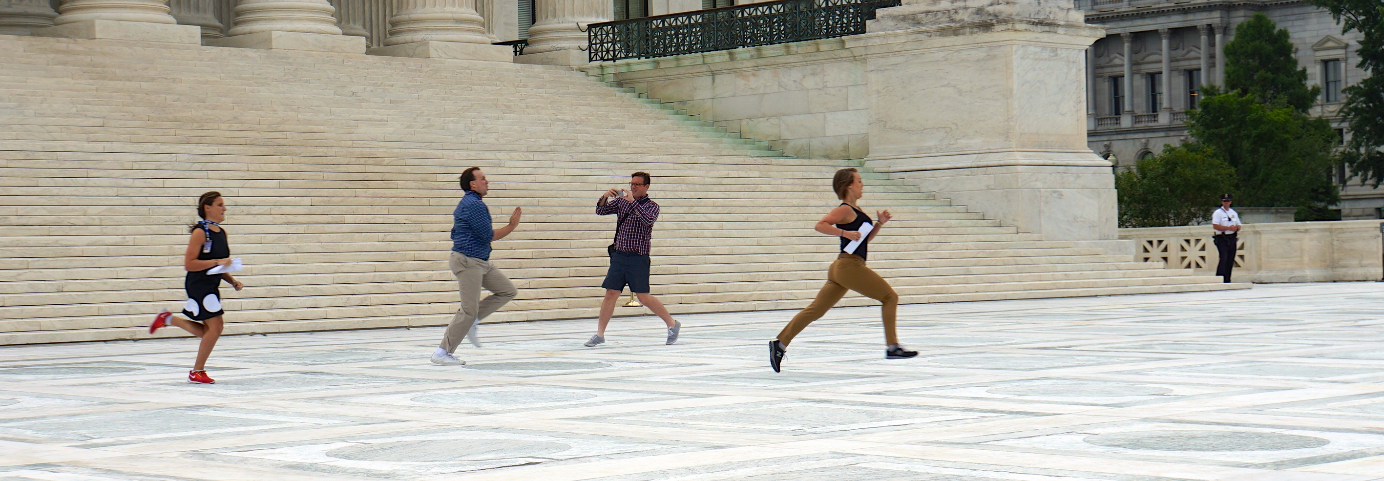 Supreme Court of the United States ends marriage discrimination - Obergefell vs Hodges --- Runners with Supreme Court Decision